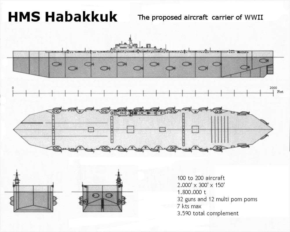 Habakukk aircraft